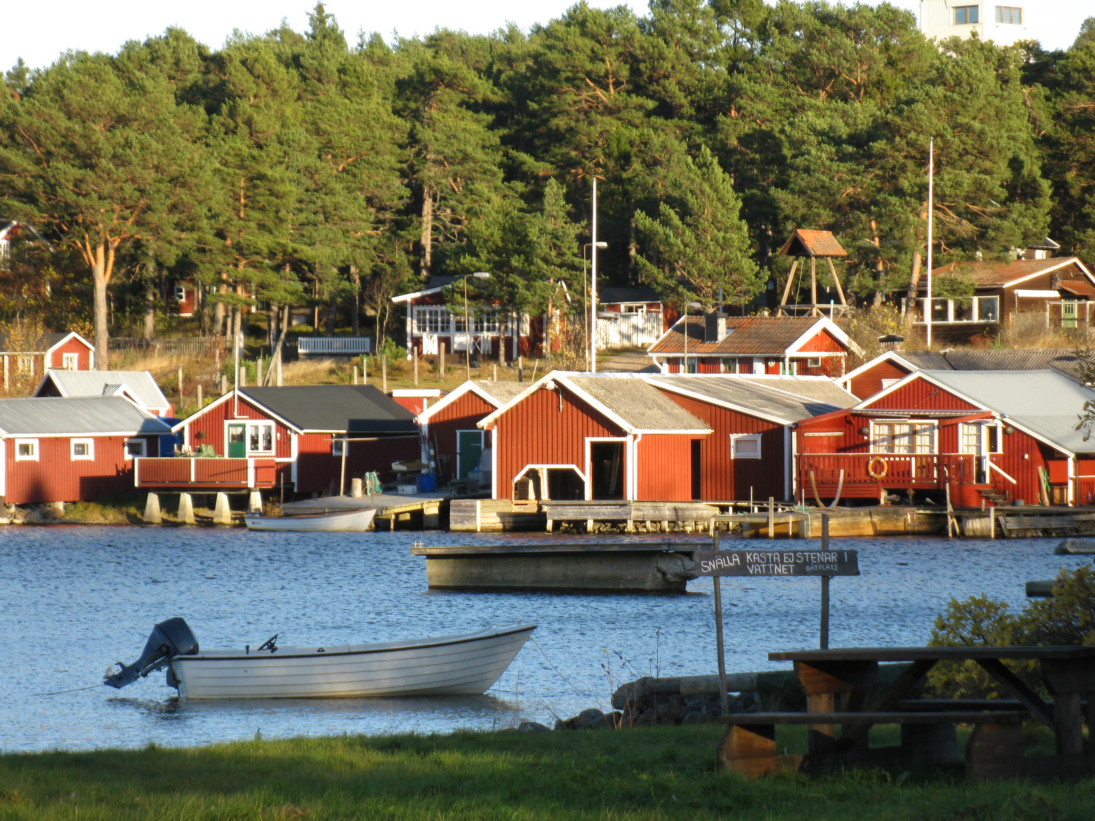 Fishing village of Spikarna, Alnö, Sweden